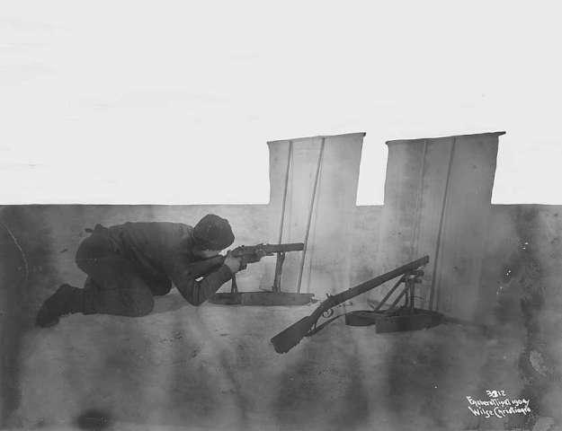 Seal hunting on ice with rifle.